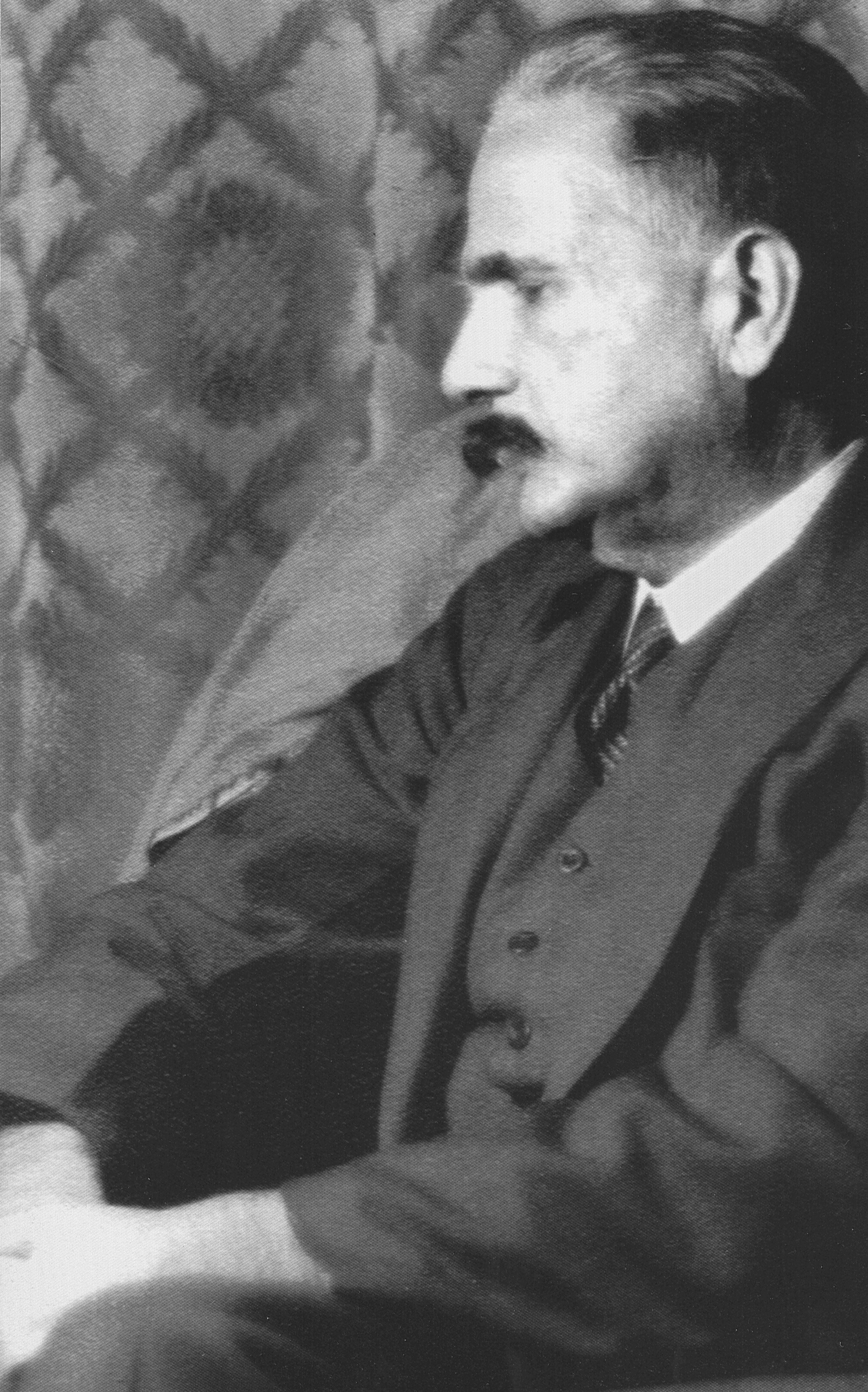 Depicted person: Muhammad Iqbal – poet and leader of the Pakistan Movement